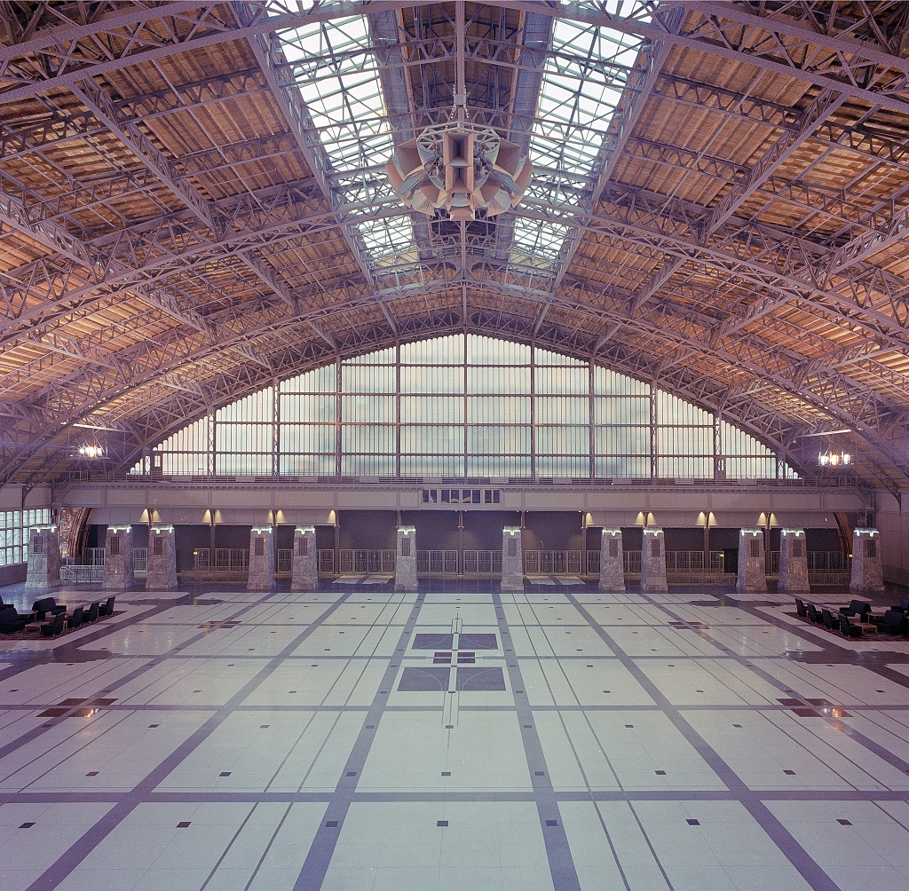 Reading Railroad Trainshed (1894), now Grand Hall, Pennsylvania Convention Center, 12th & Market Streets, Philadelphia, Pennsylvania.